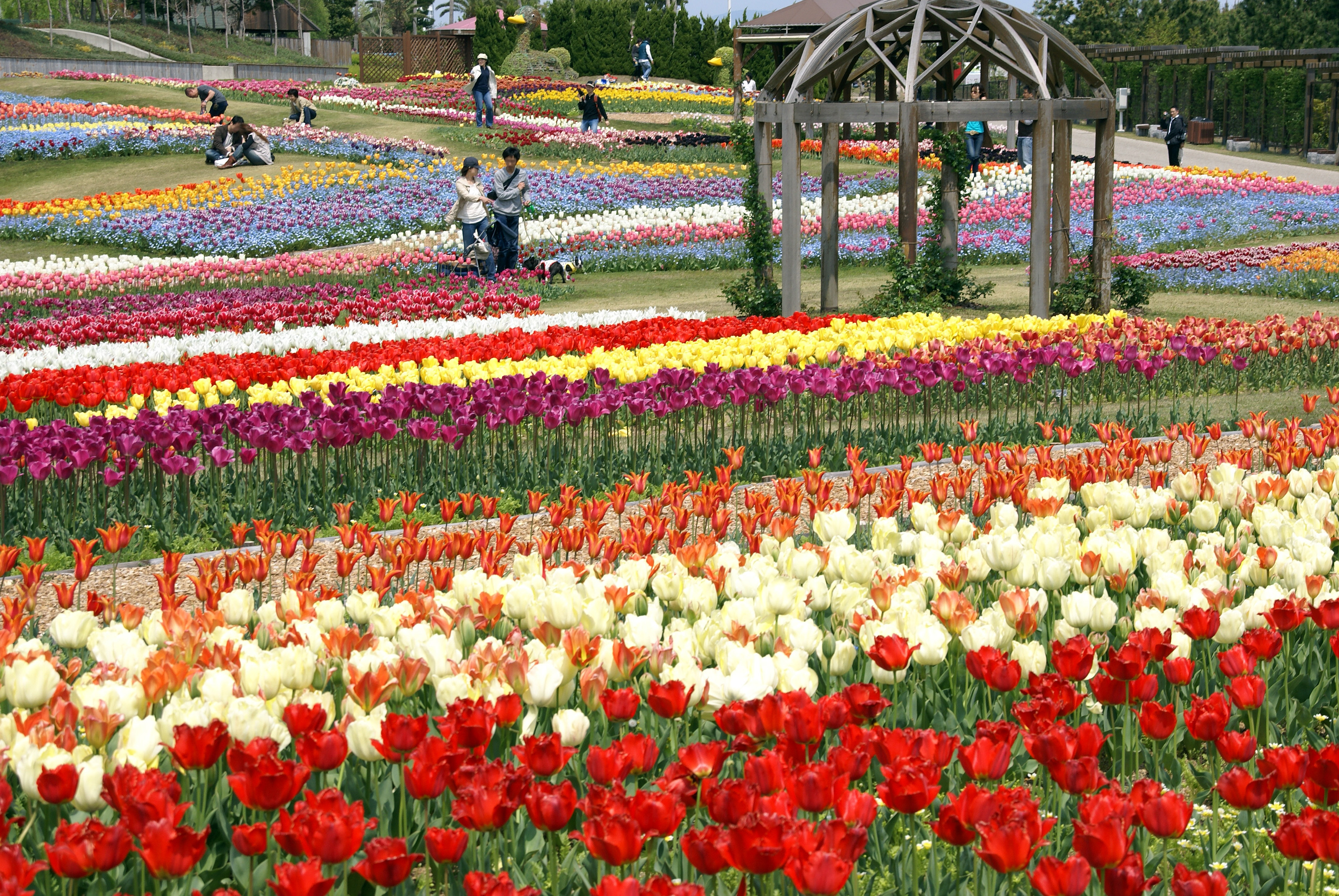 Akashi Kaikyo National Government Park in Awaji, Hyogo prefecture, Japan